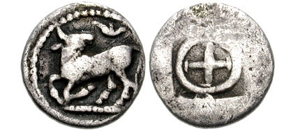 Ancient Greek coin of Ichnai circa 479-465 BC AR Diobol (10mm, 0.86 gm). Bull standing left, head reverted; floral ornament above / Four-spoked wheel within shallow incuse square.